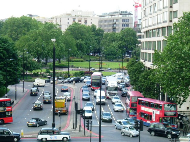 Park Lane, W1 Taken from the top of the Wellington Arch in the middle of the roundabout, Park Lane where it meets Piccadilly at Hyde Park Corner. Apsley House is just to the left out of shot.